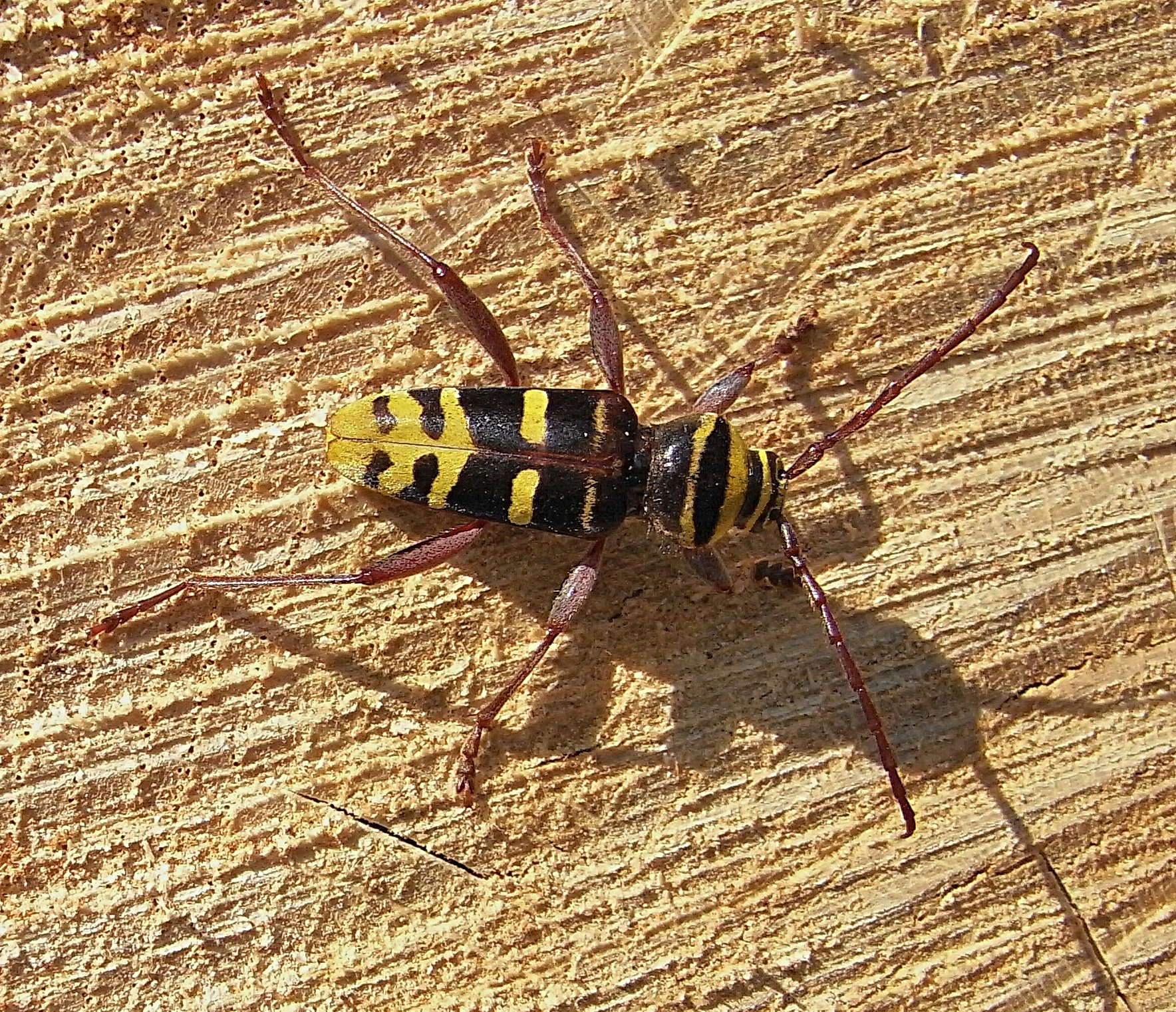 Plagionotus detritus from Matra-mountains in Hungary, at 2010-06-30Ricoh R8